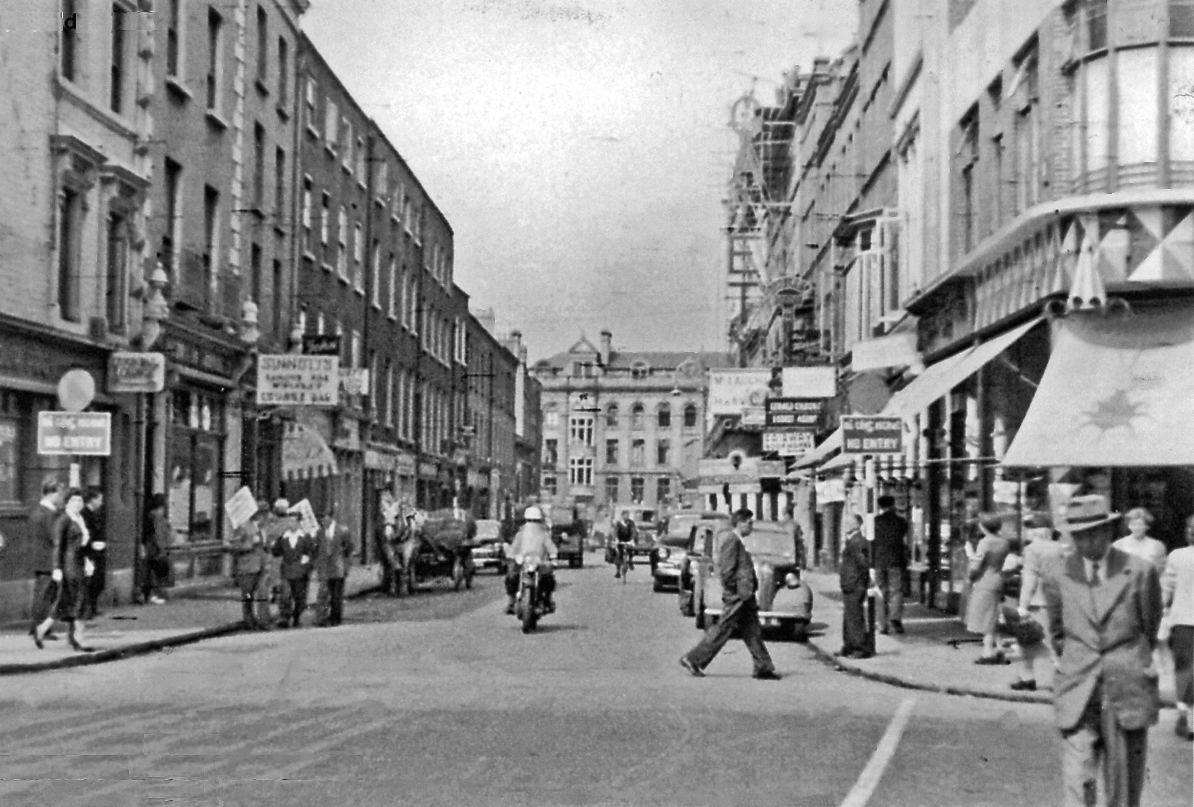 Dublin, 1955: King Street South from St Stephen's Green. Back in Summer 1955 there was evidently a Barbers' Strike in Dublin - see the small group with a banner on the left. The left side here is now St Stephen's Green shopping centre. The building at the end is now Mercer's Medical Centre on Mercer Street Lower.